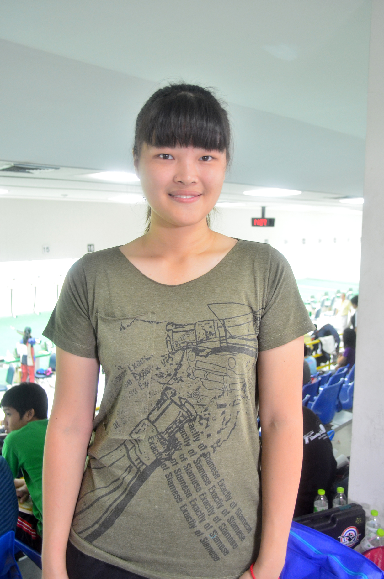 Tanyaporn Prucksakorn